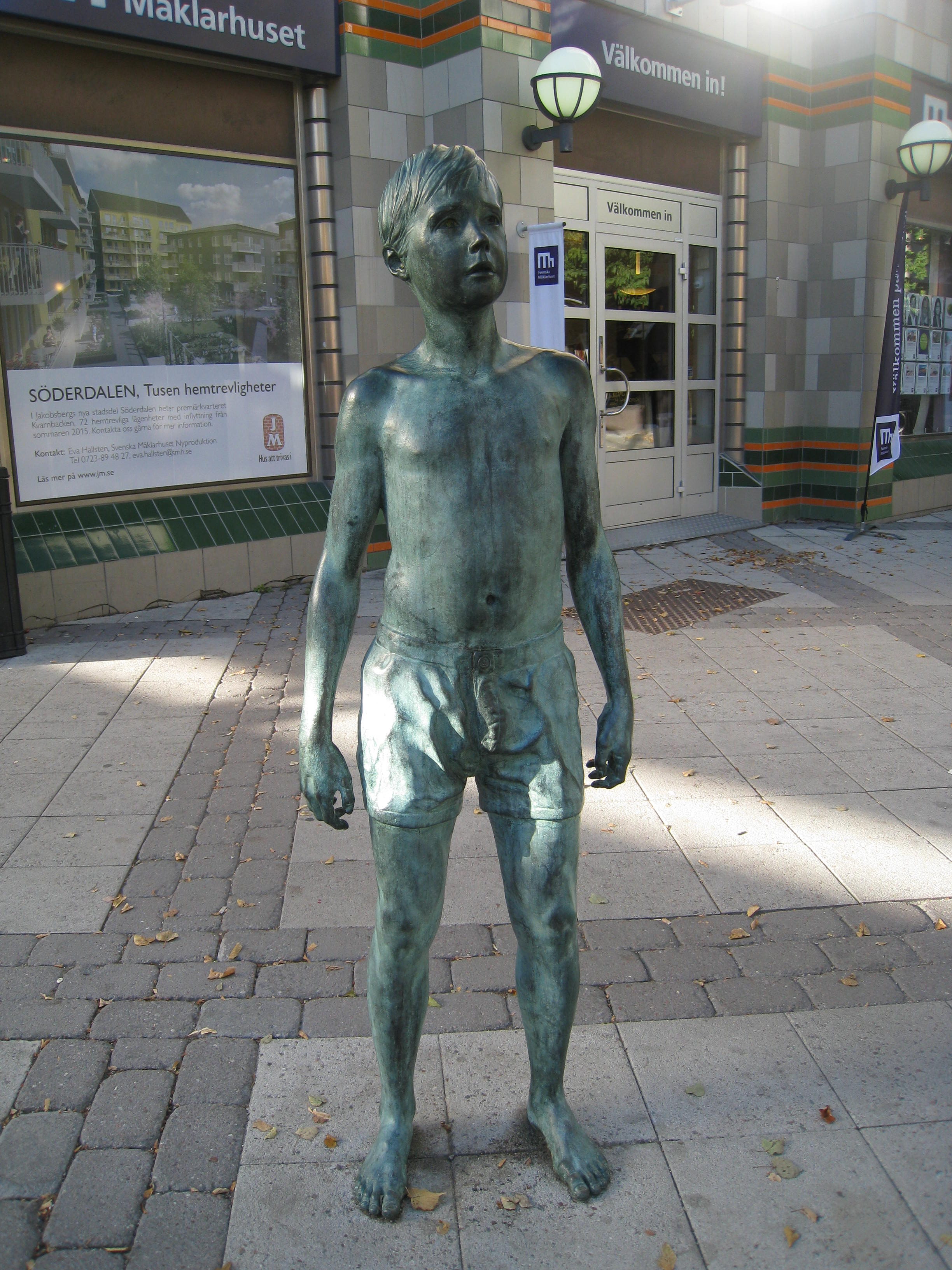 "The boy", sculpture in bronze by Lars Nilsson, at Riddarplatsen in Jakobsberg, Järfälla municipality.